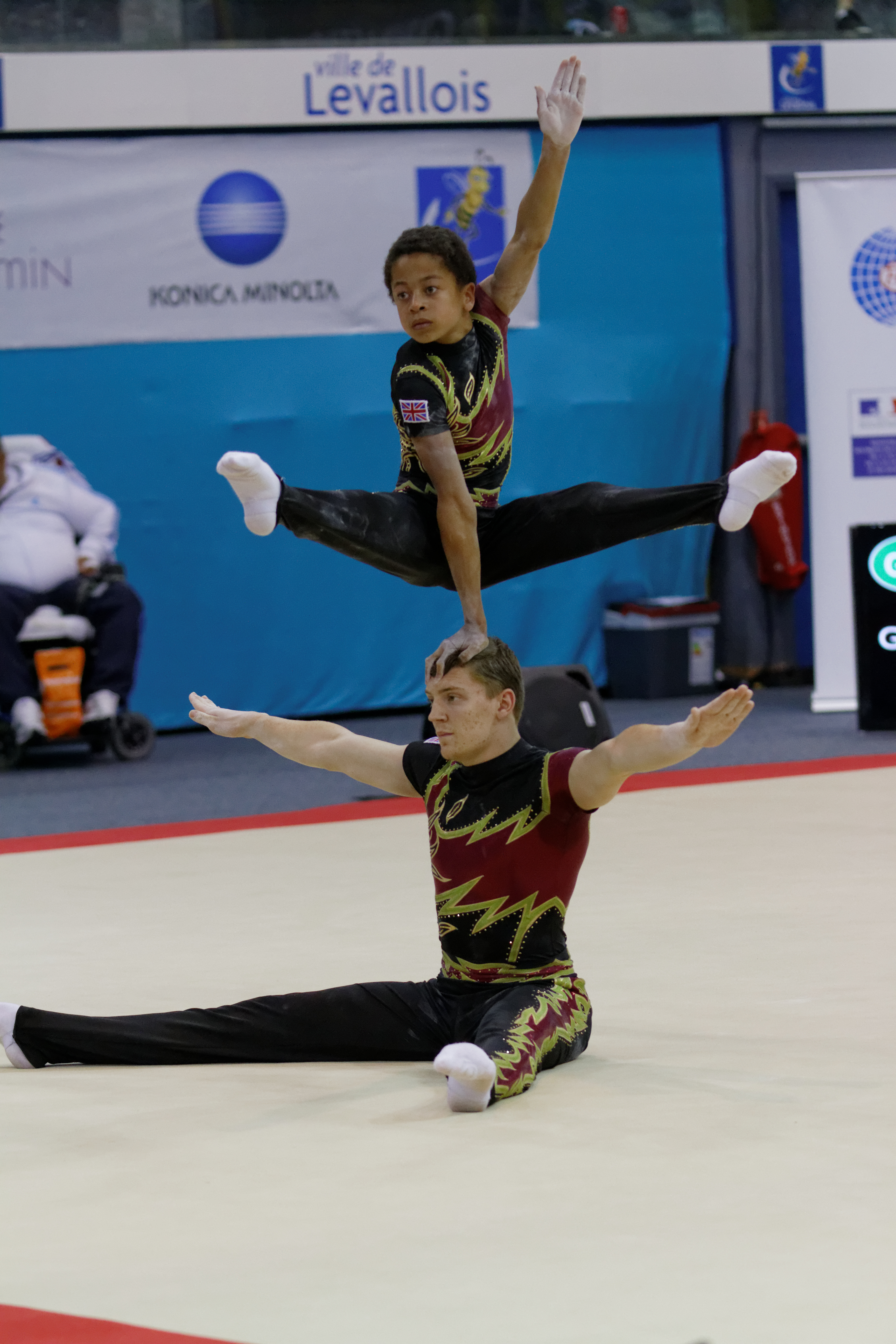 2014 Acrobatic Gymnastics World Championships, 10th-12 July, Levallois-Perret, France. Finals: men's pair. Great Britain.